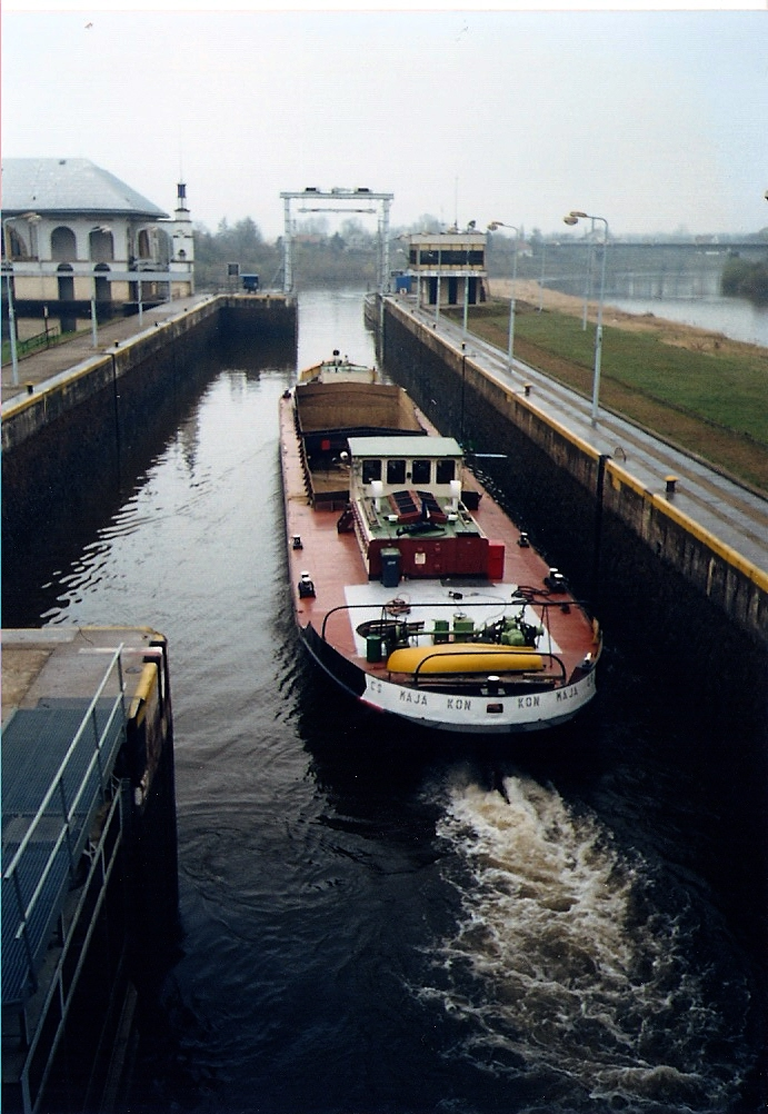 Motor barge Maja in canal lock Miřejovice at Vltava River. Czech republic.